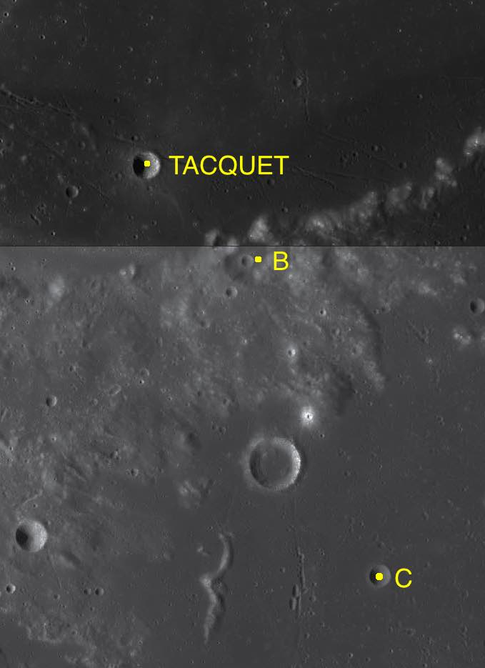 Parts of the charts LAC-42, LAC-60 used for the presentation.